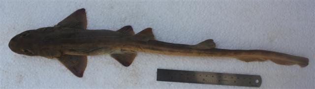 Slender bamboo shark (Chiloscyllium indicum) from Malaysia